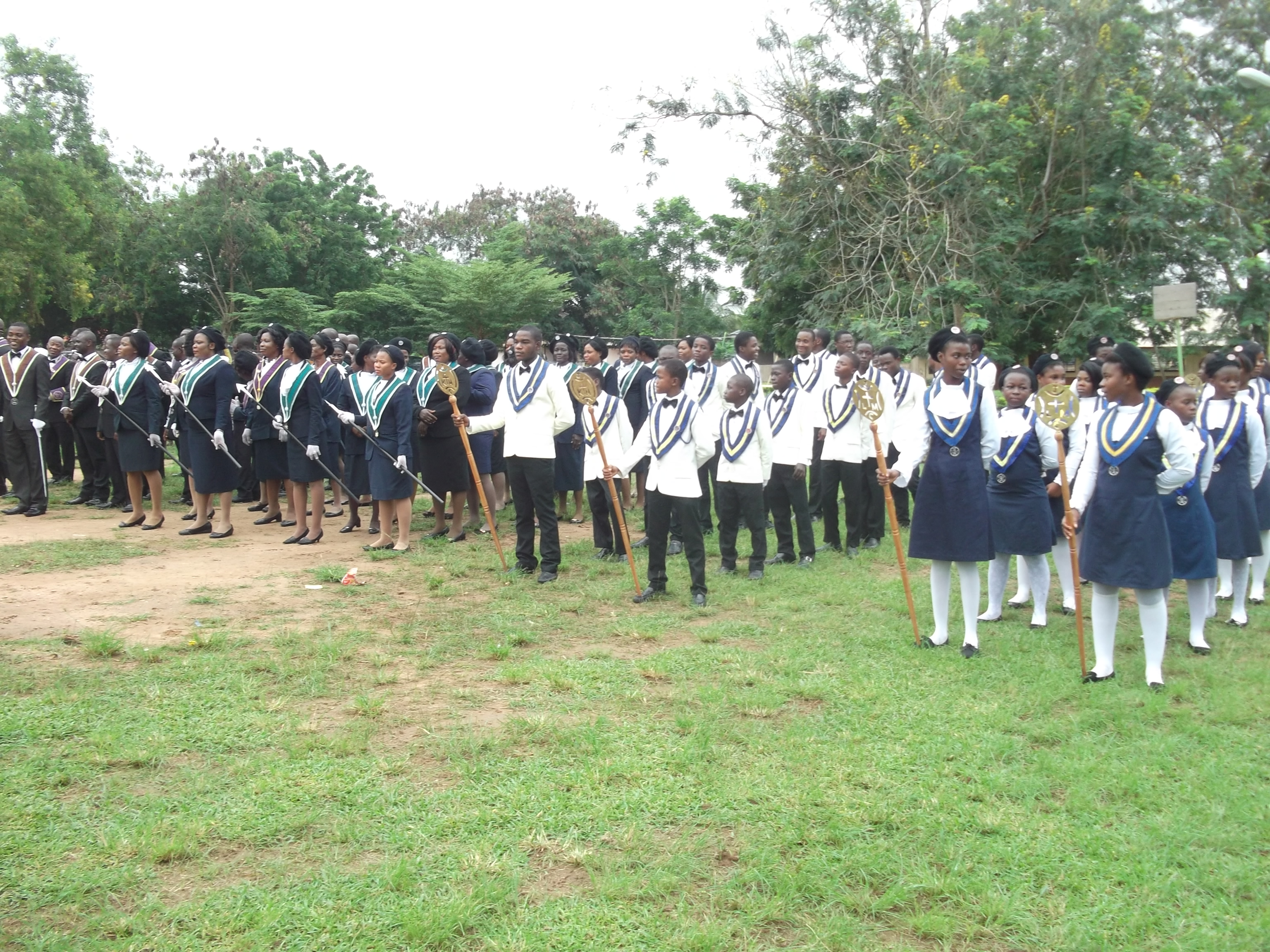 The Knights and Ladies of Marshall with Juniors